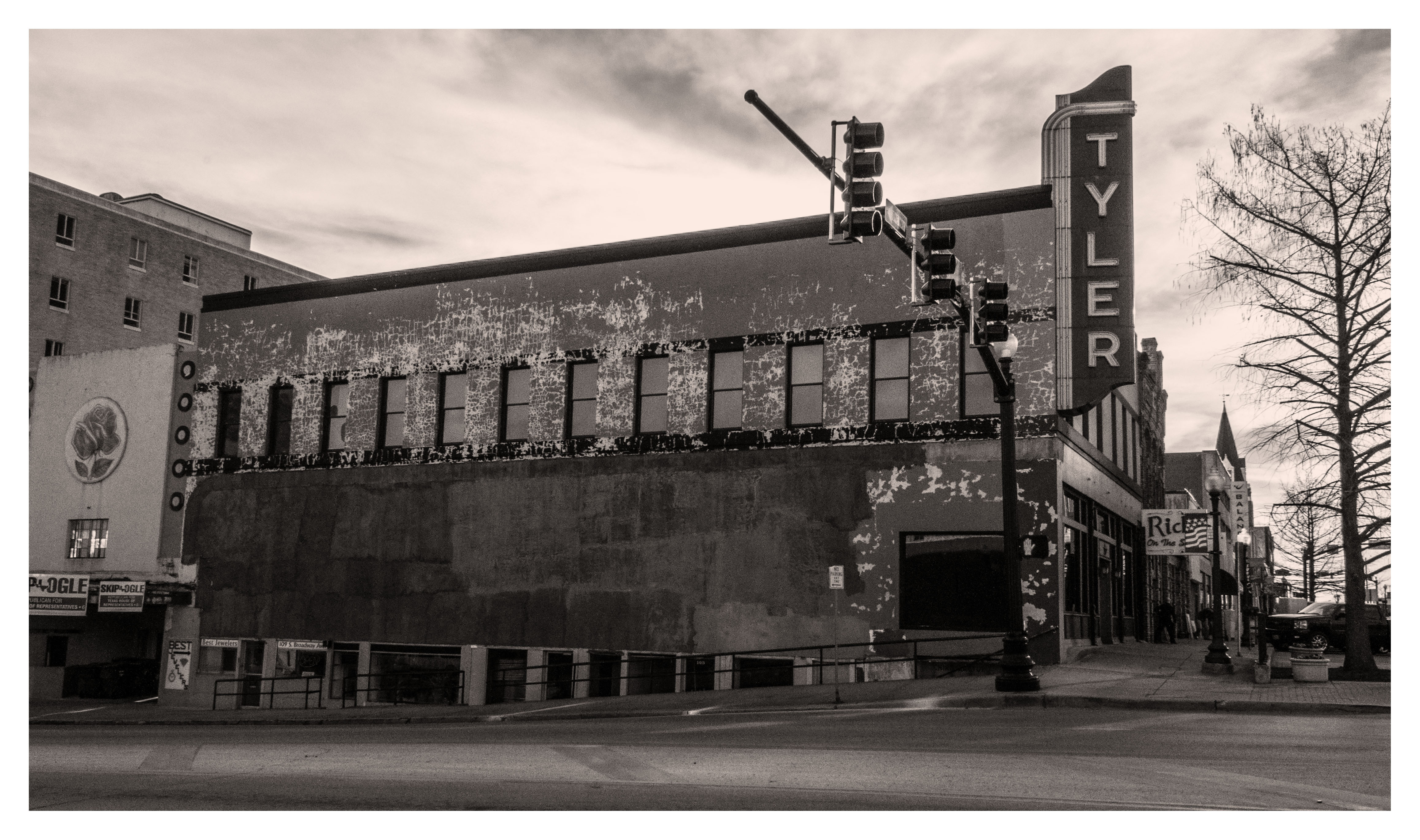 Tyler